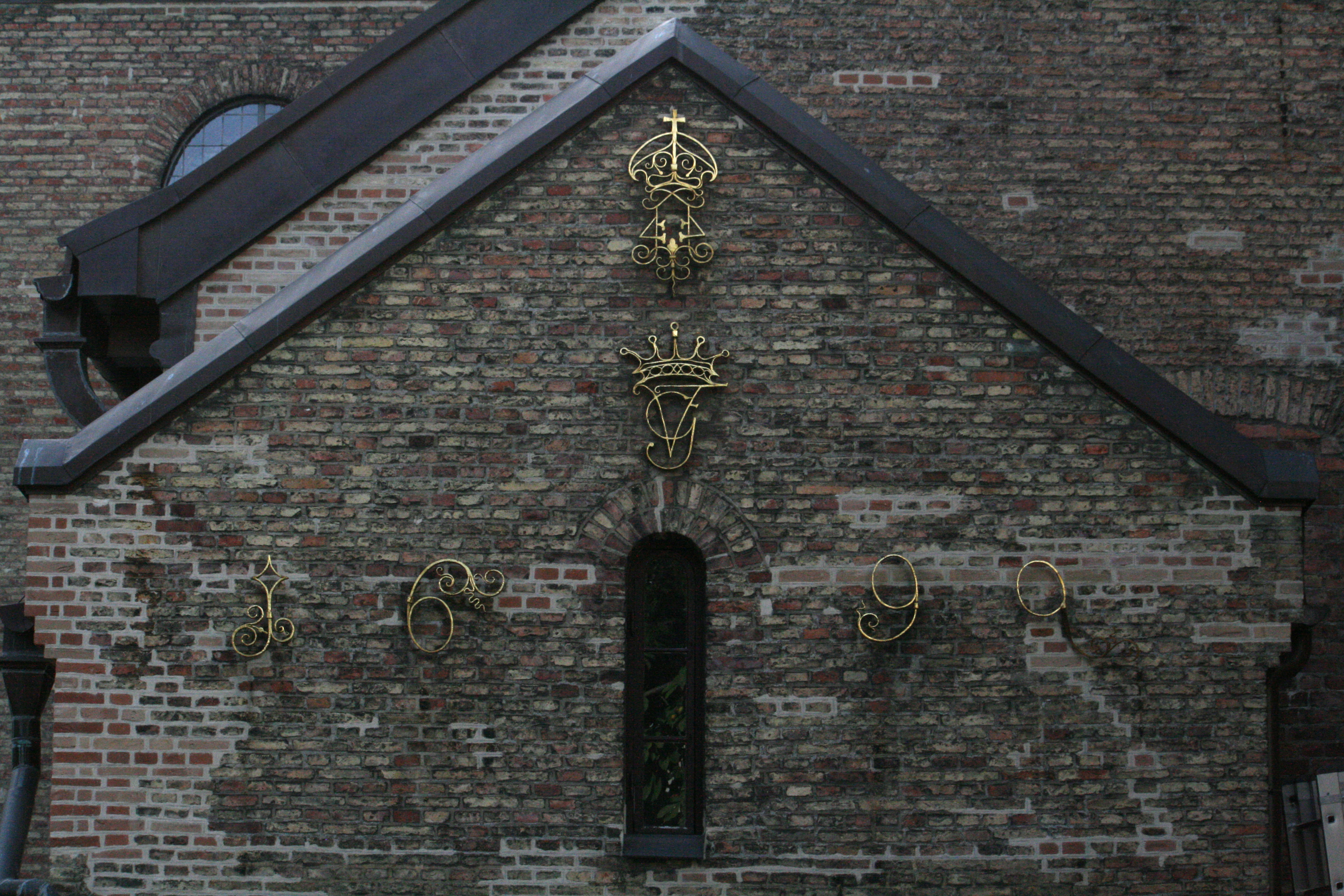 Detail from Oslo Cathedral: The year 1699 (last figure broken) and the monograms of king Frederik IV and Lord-Lieutenant Ulrik Fredrik Gyldenløve.